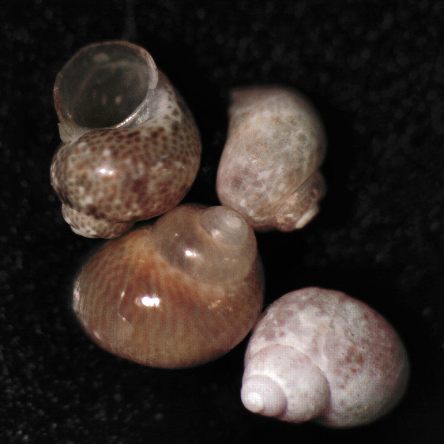 Eulithidium thalassicola (Robertson, 1958), a sea snail from the family Phasianellidae; Florida